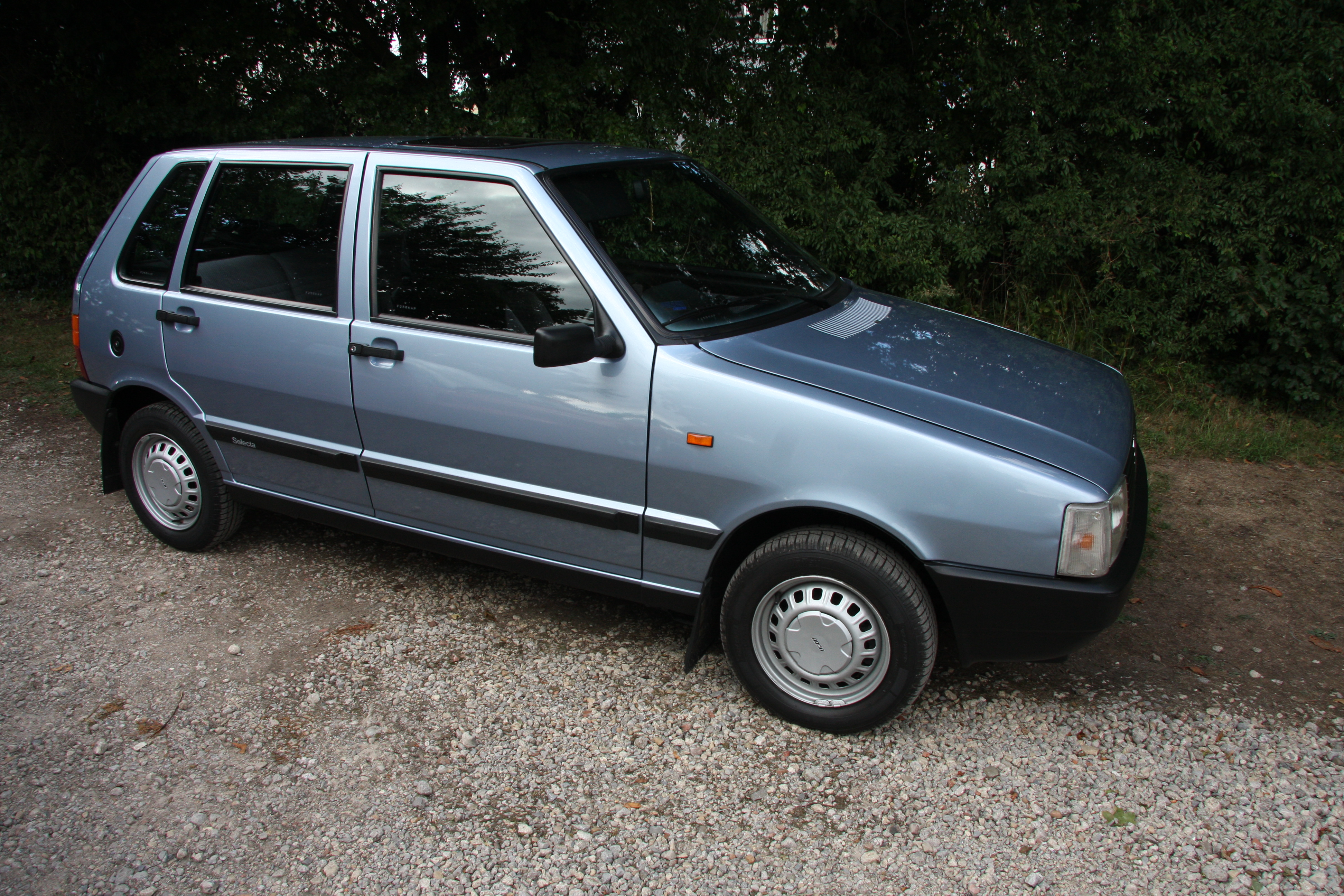 Fiat Uno Selecta